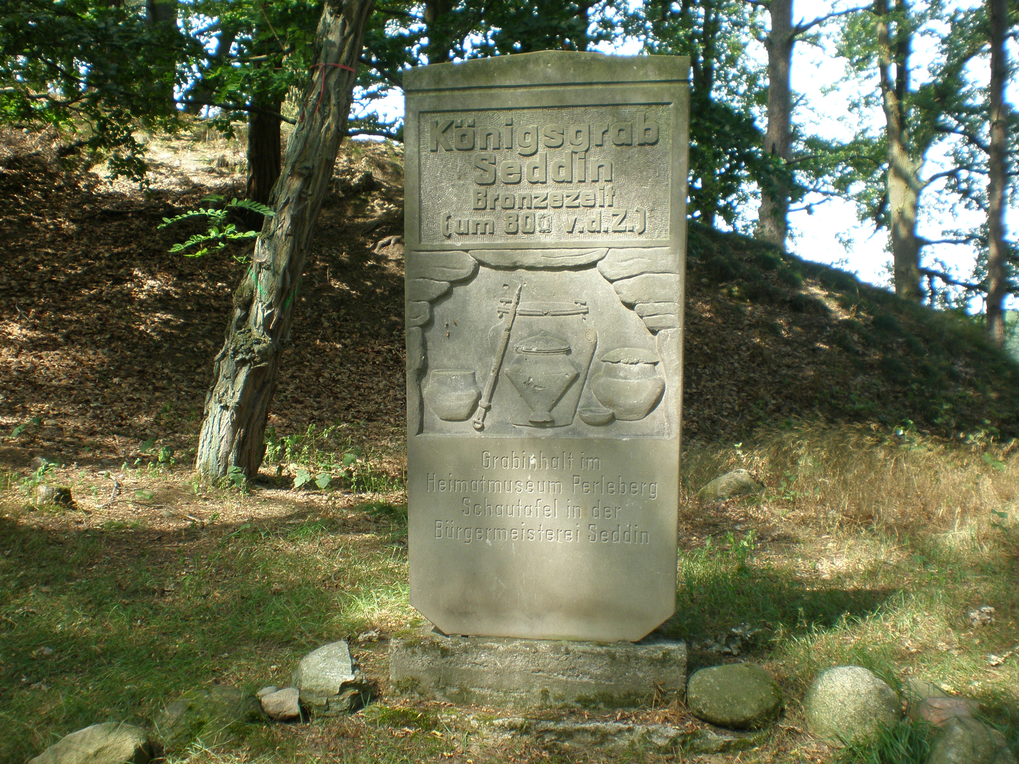 Seddin in the Prignitz: Memorial stone for the Bronze Age megalith tumulus and tomb, the so-called King's Grave